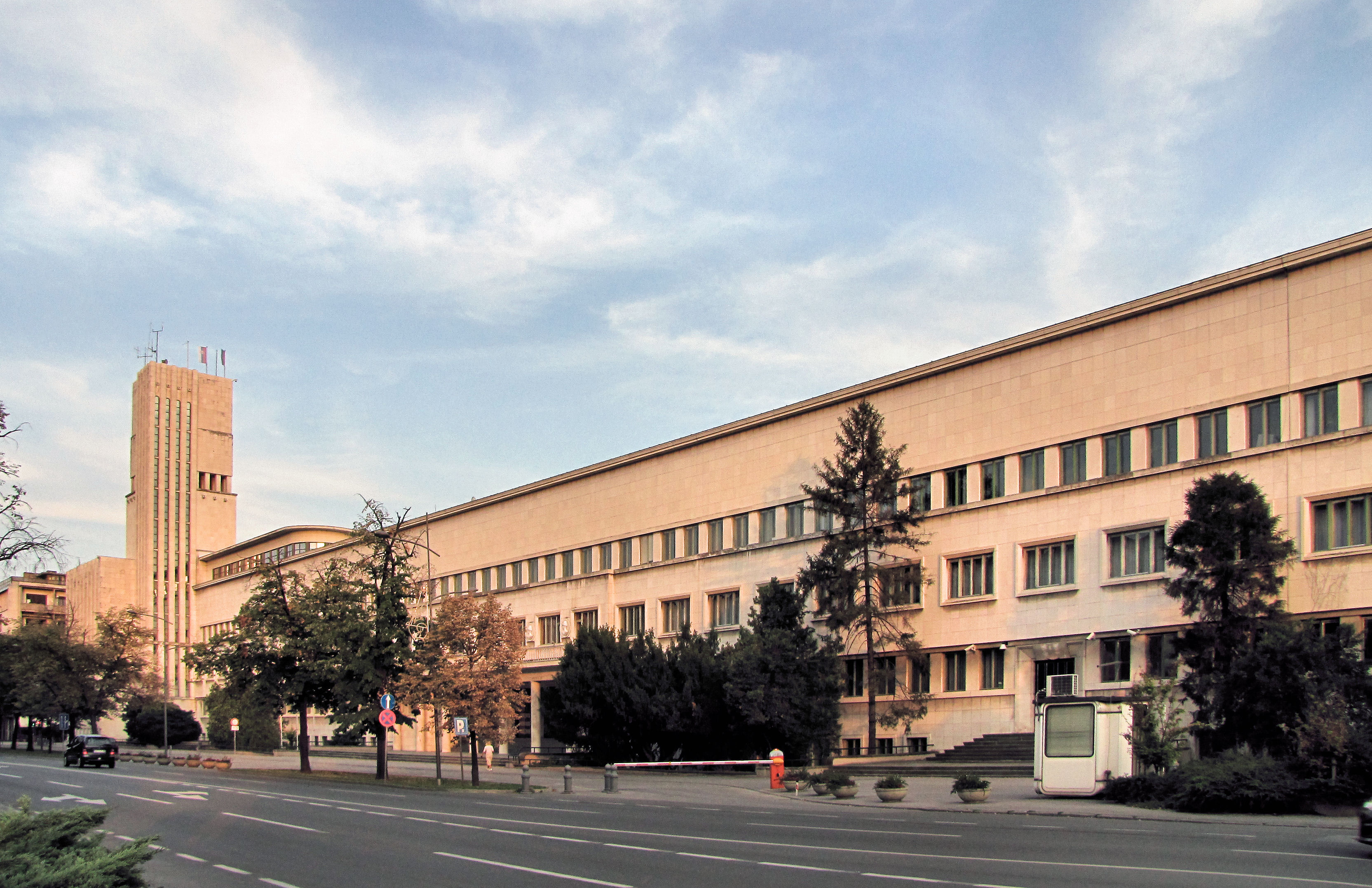 Banovina - seat of Vojvodinian government, Novi Sad, Serbia. Built in 1936-39, by the plans of Dragiša Brašovan (1887-1965).